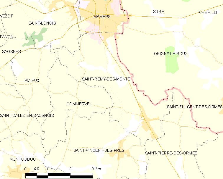 Map of French municipality